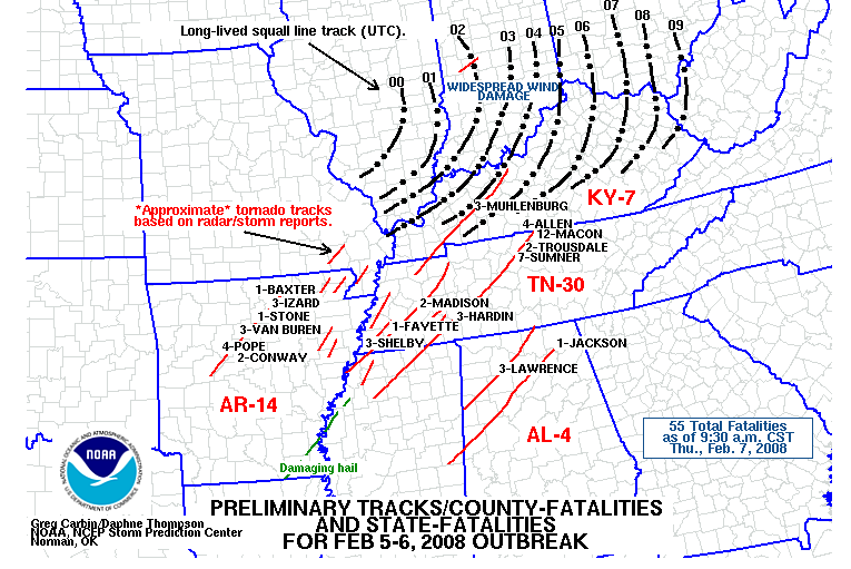 The Storm Prediction Center's preliminary tornado track map for February 5, 2008, the date of the Super Tuesday Tornado Outbreak of 2008. Map shows suspected tornado tracks and squall line movement.